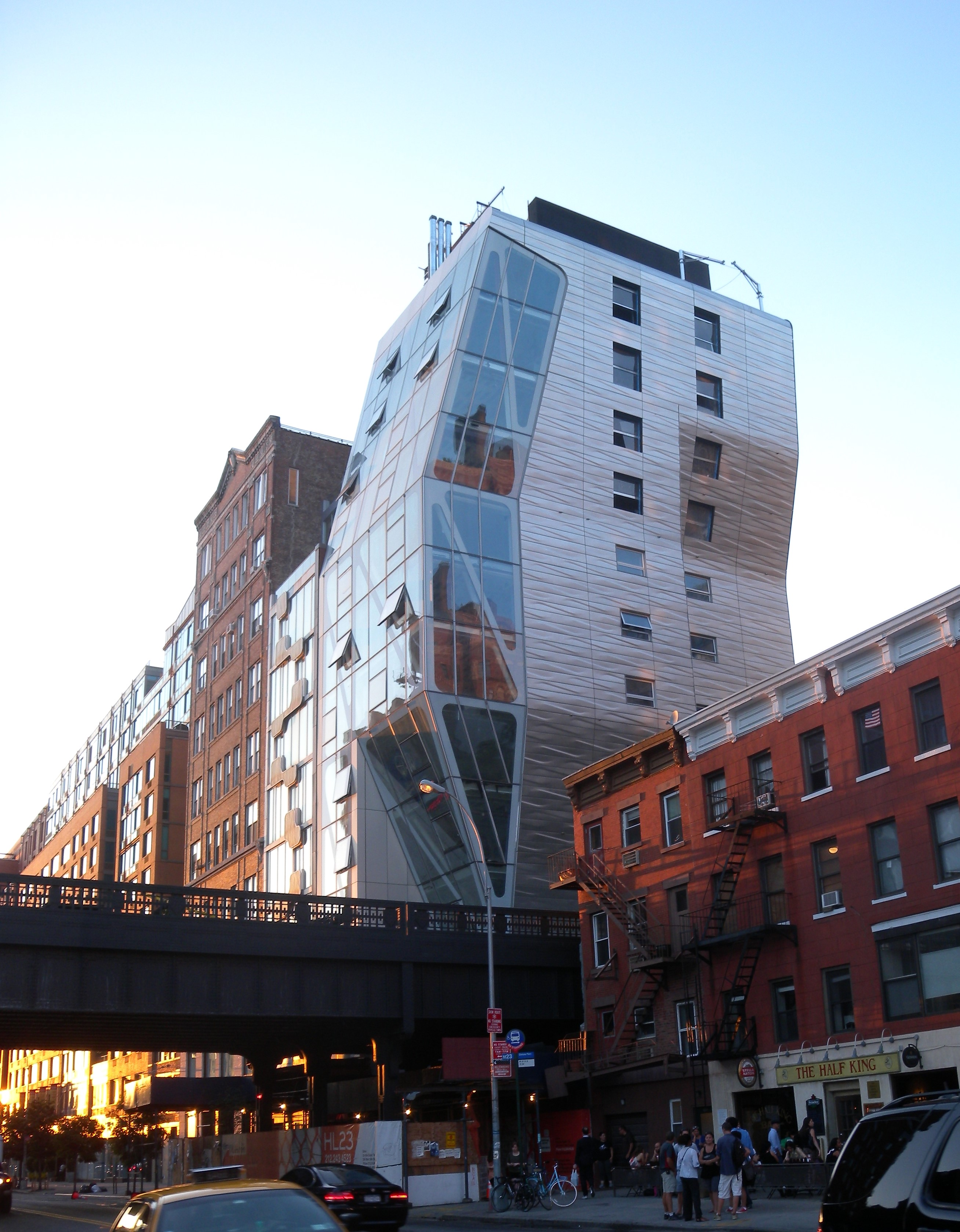 Looking northwest across 23d St at new crooked 517 West 23d HL23, near sunset of a sunny day.